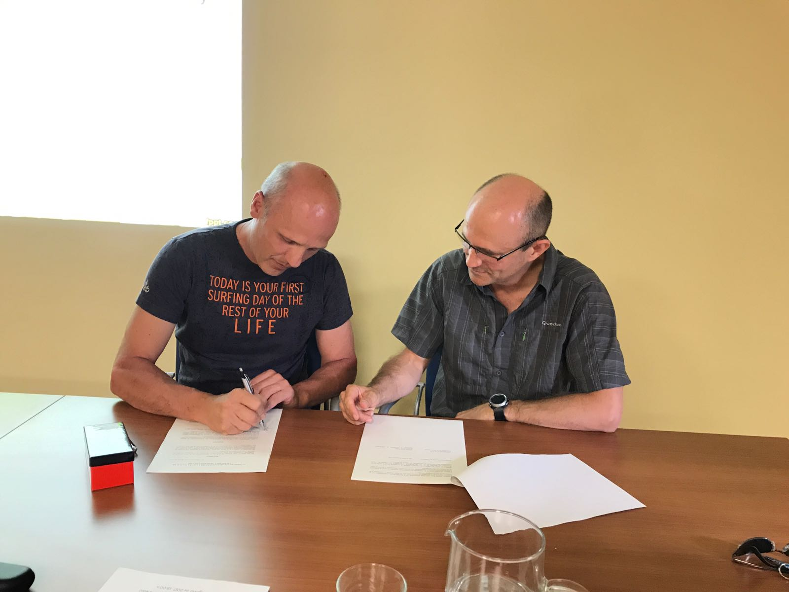 Firma del convenio de la Junta Vecinal de Valdavido con AEMS Ríos con Vida